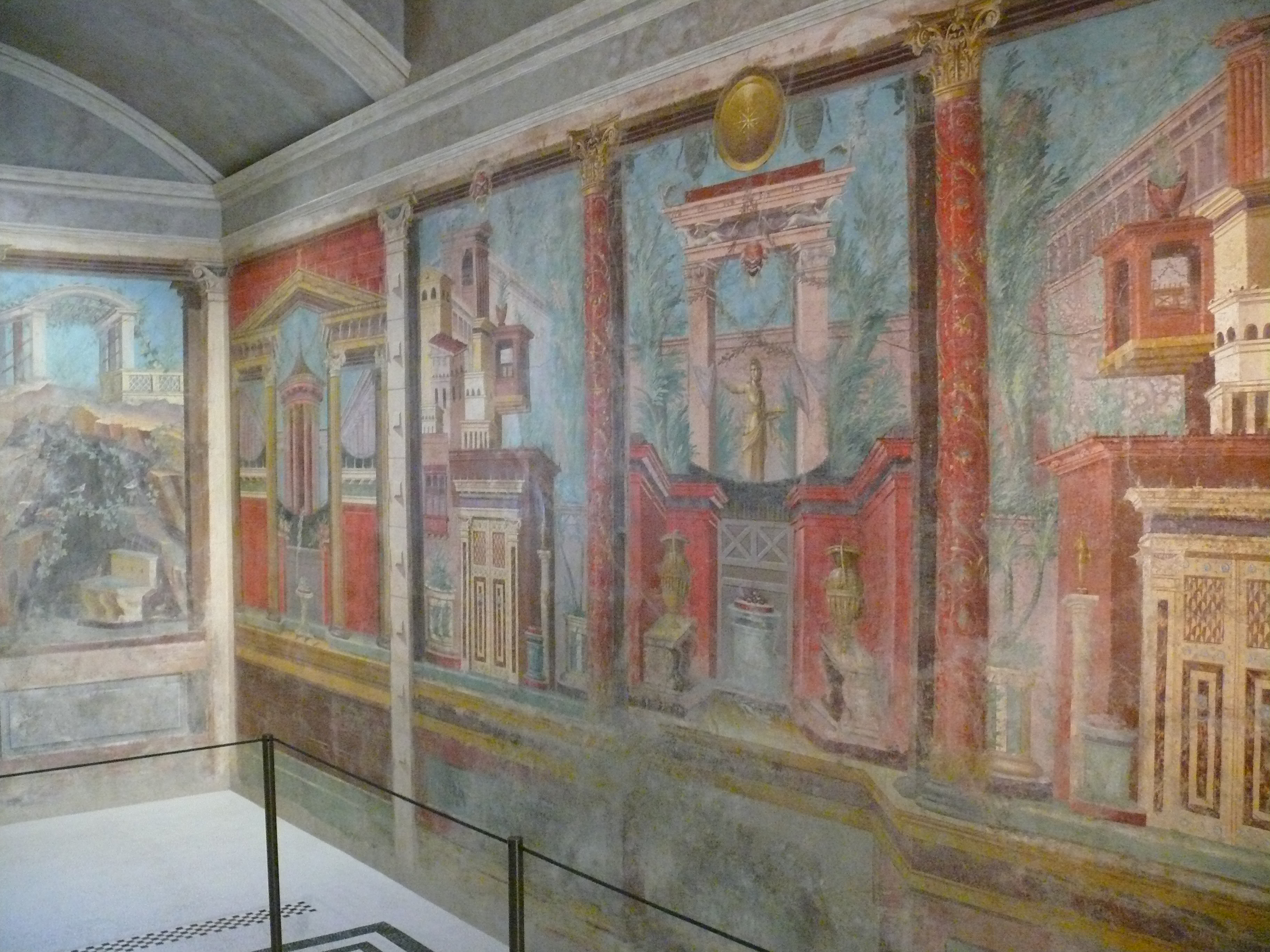 Cubiculum (bedroom) from the Villa of P. Fannius Synistor at Boscoreale. Fresco Roman Republican period Date: ca. 50–40 B.C. Credit Line: Rogers Fund, 1903 Accession Number: 03.14.13a–g